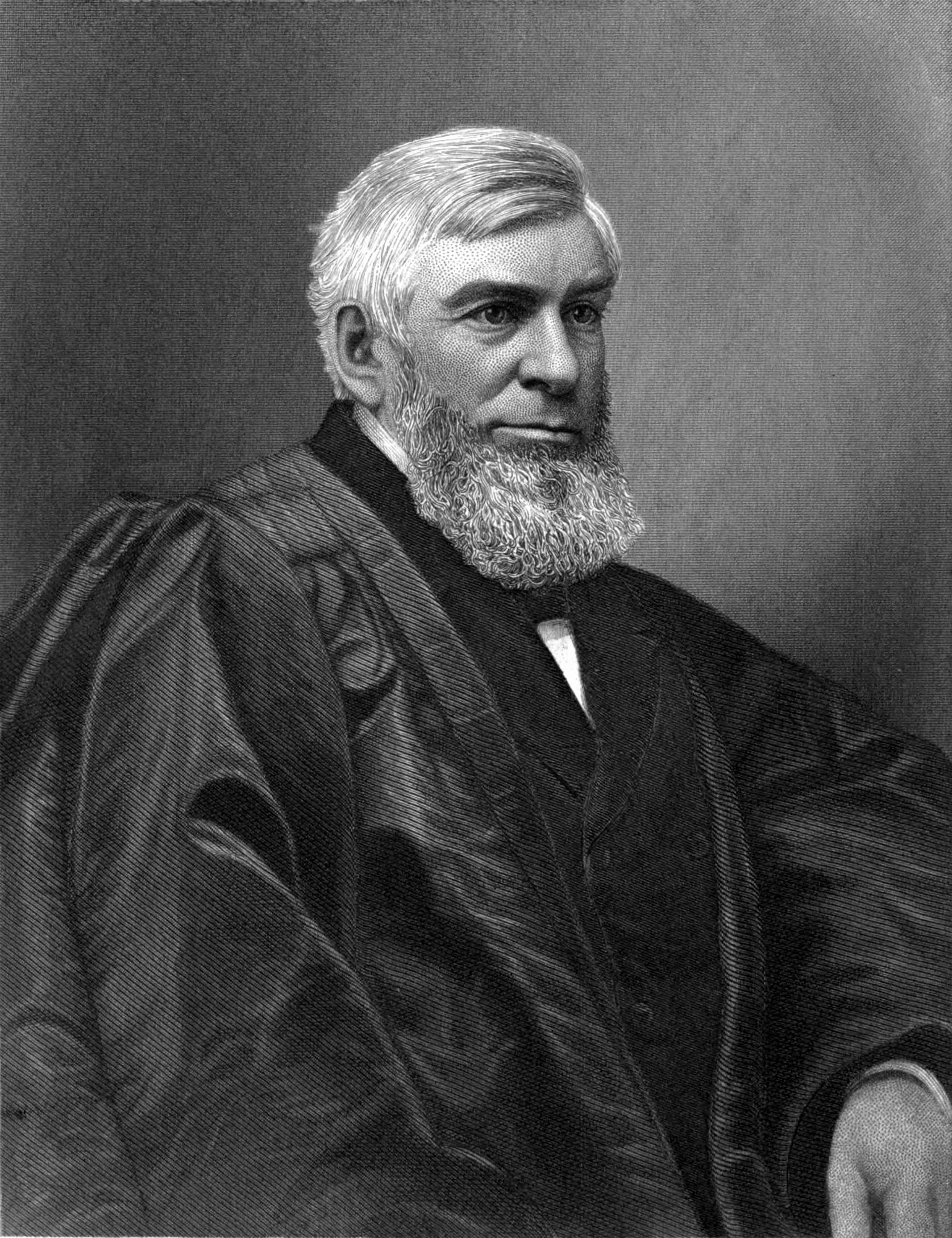 Portrait engraving of the seventh chief justice of the United States Supreme Court, Morrison Waite